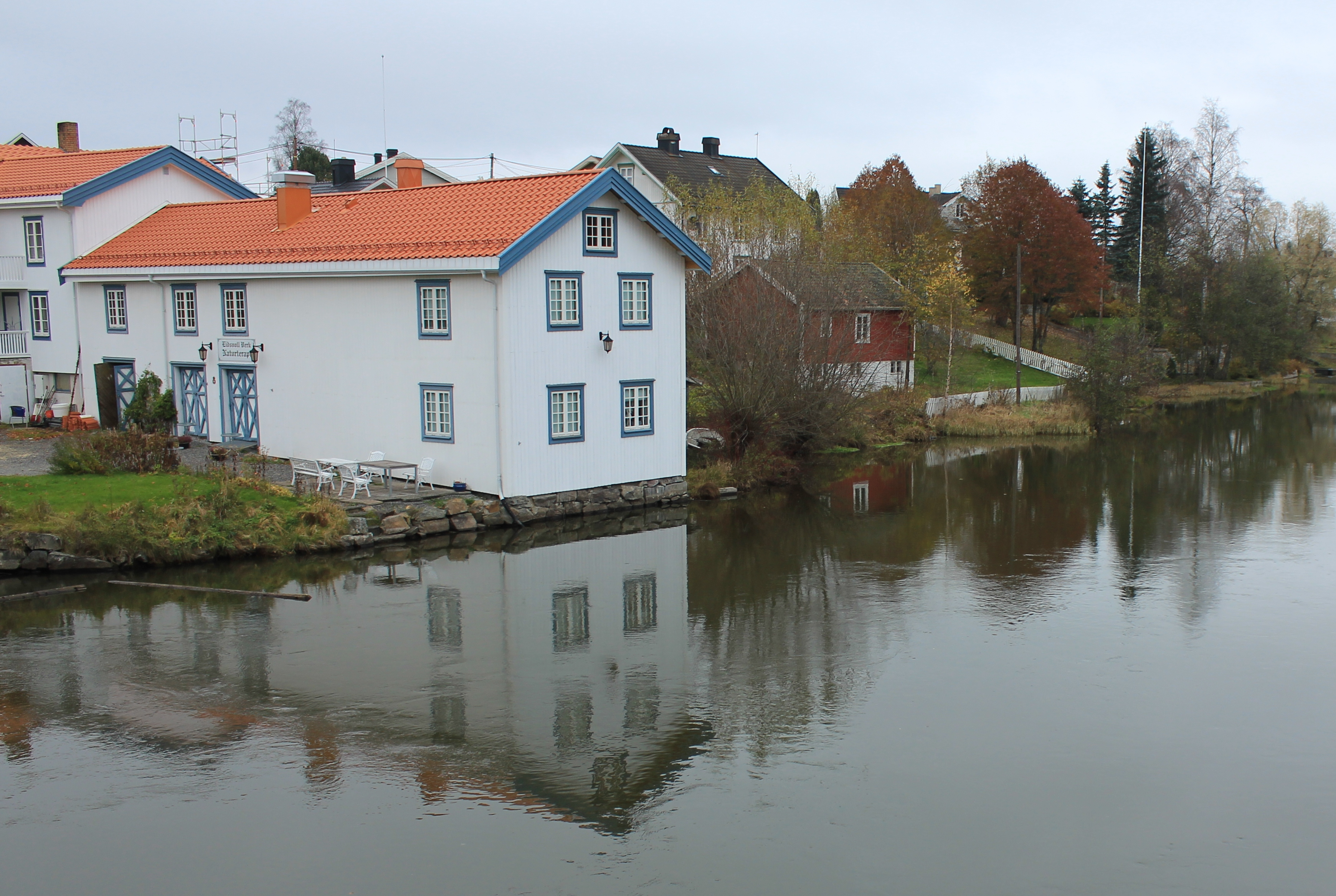 Traditional house by Andelva, Akershus, Norway